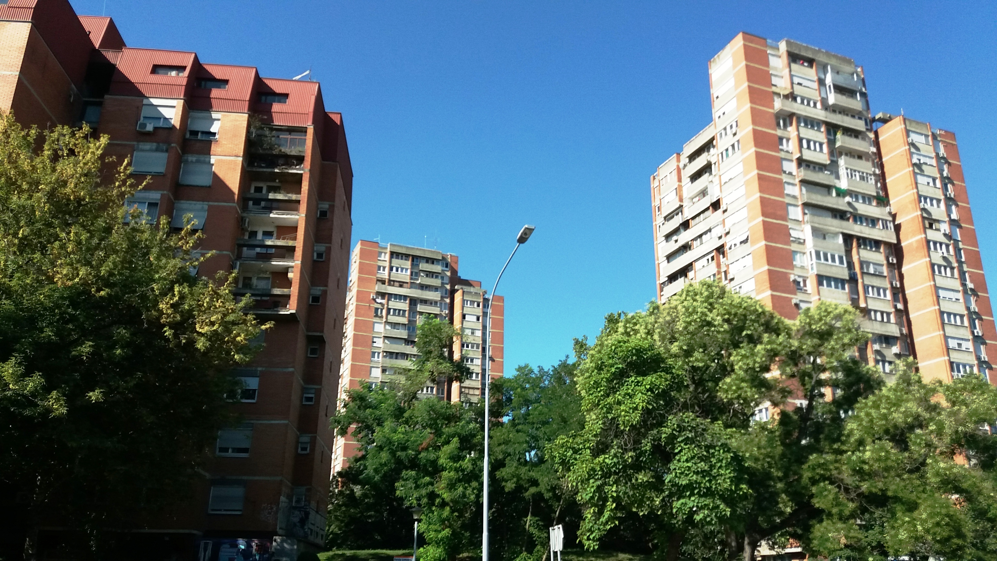 Block 4, New Belgrade